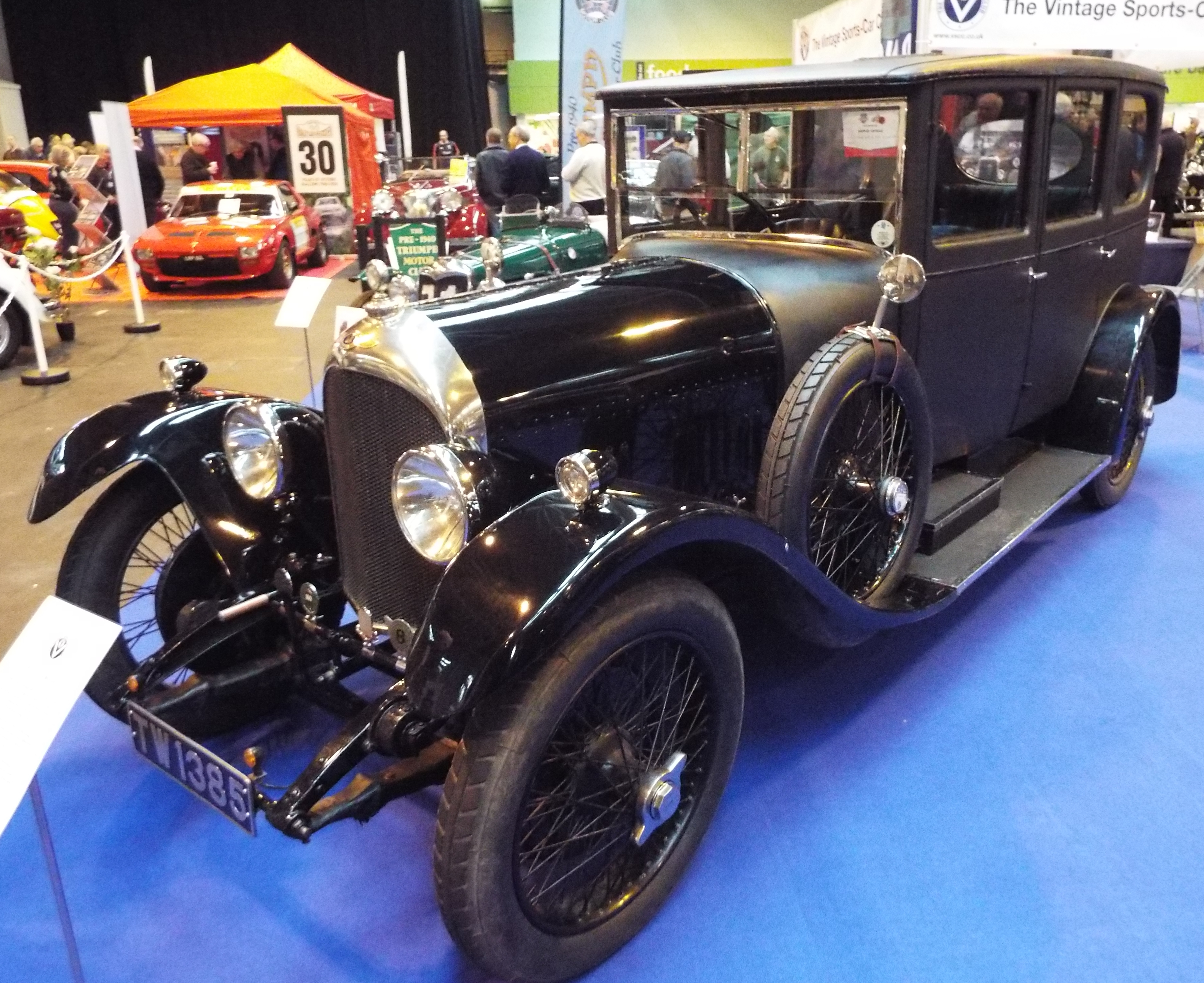 Bentley 3 Litre saloon Weymann fabric by Gurney Nutting 1926 Chassis AP325 Long Chassis Engine AP321 low compression engine, single Smith carburettor Reg TW 1385 delivered February 1926original body